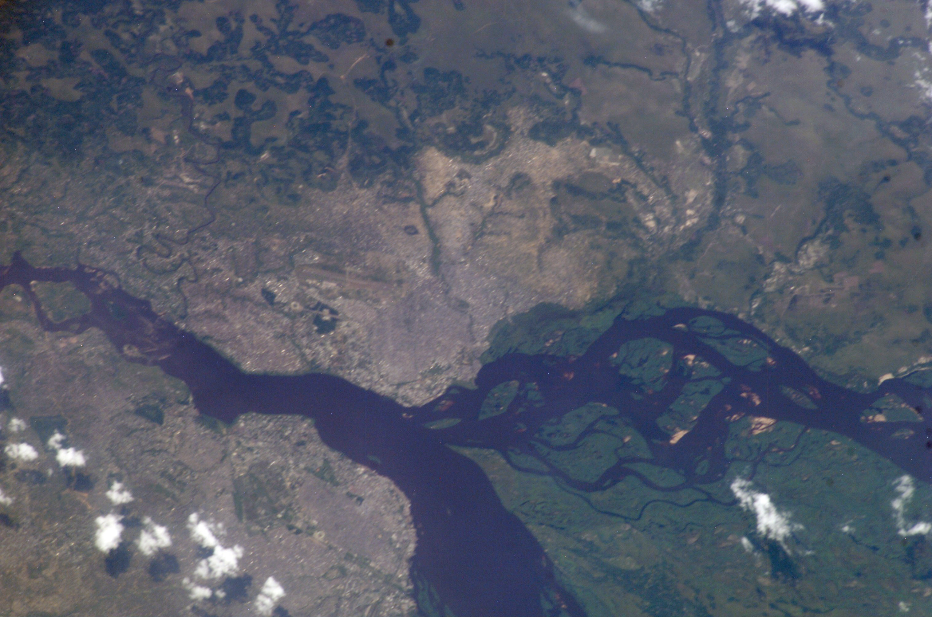 Astronaut's satellite photo of Brazzaville, on the north bank of the Congo River at the western Pool Malebo section. In the southeastern Republic of Congo. Kinshasa is across the river, on the southwest bank. Taken from the International Space Station (ISS) during Expedition 8 on December 29, 2003.